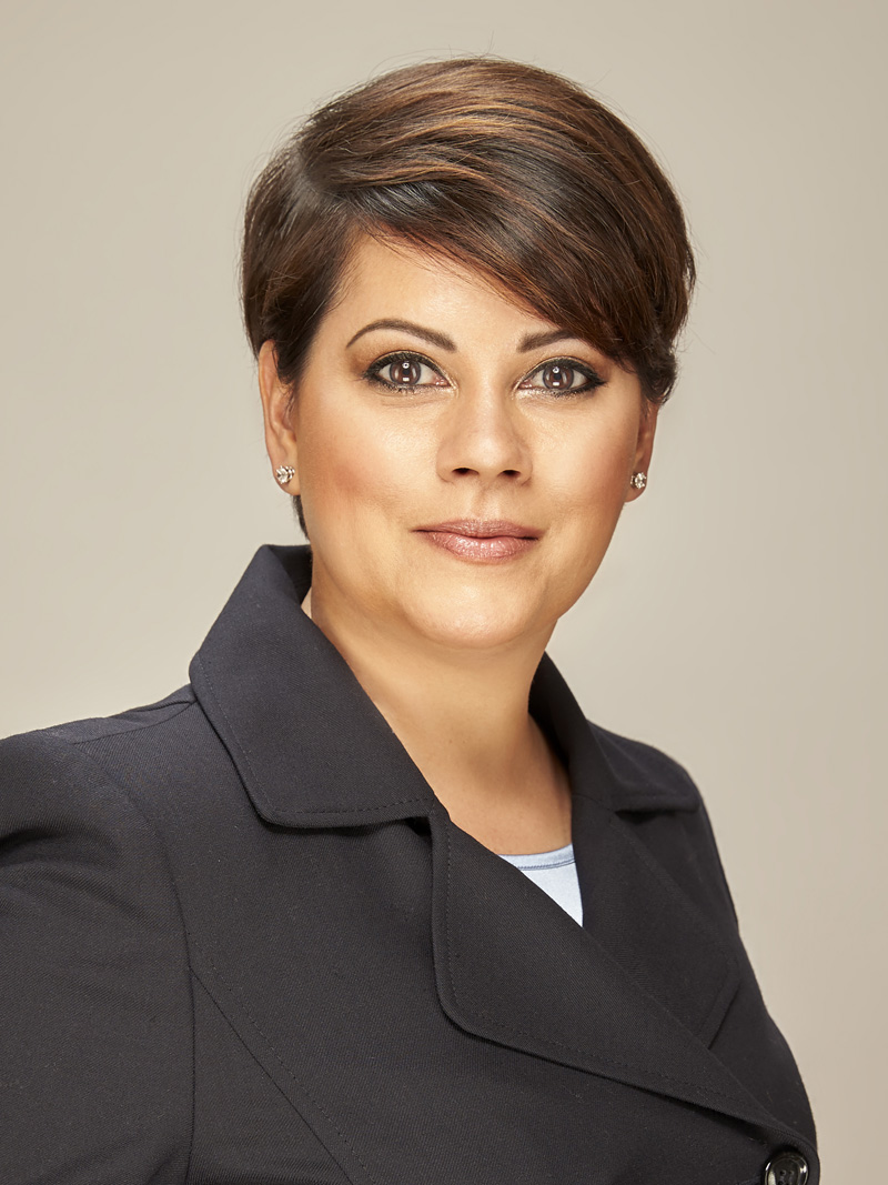 Portrait Sita Monica Mazumder